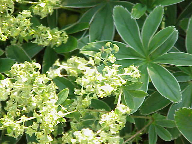 Species: Alchemilla xanthochlora Family: Rosaceae Image No. 1